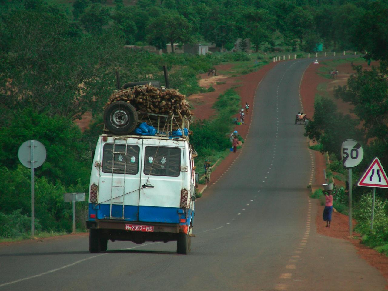 Road Bamako-Kayes: Close to Bamako on the return. Light traffic in the countryside.